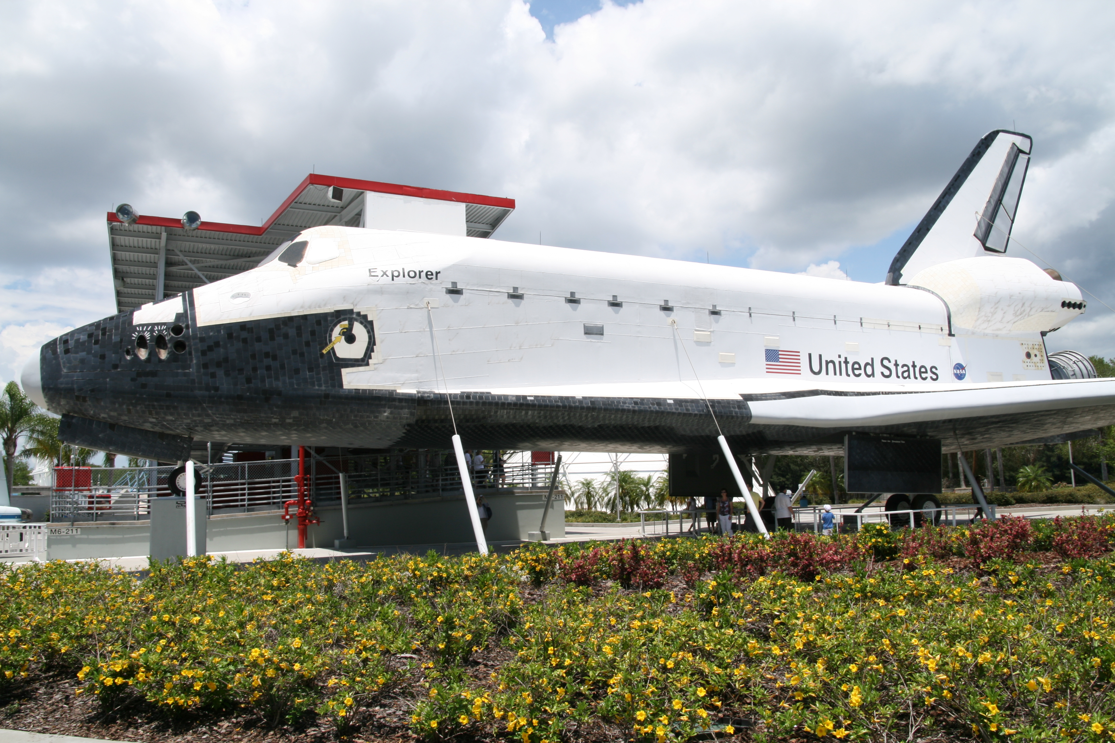 Space Shuttle Explorer on display at Kennedy Space Center Visitor Complex in Florida. This is a full-scale replica of a Space Shuttle, so it has never flown. Internal details of the mock-up are not remarkably accurate, though the size and scope of the payload bay is correct. Externally, the mock-up features simulated thermal protection system tiles (bearing numbers, as the genuine flight articles do), paneling that looks like reinforced carbon-carbon panels on the leading edges of the wings, and Michelin tires on the landing gear.